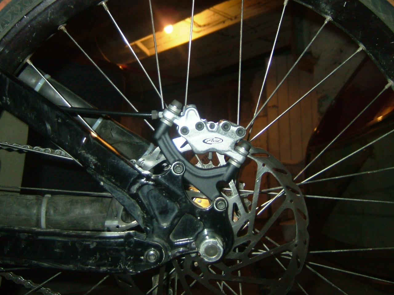 Avid Code 2008 Caliper and Disc